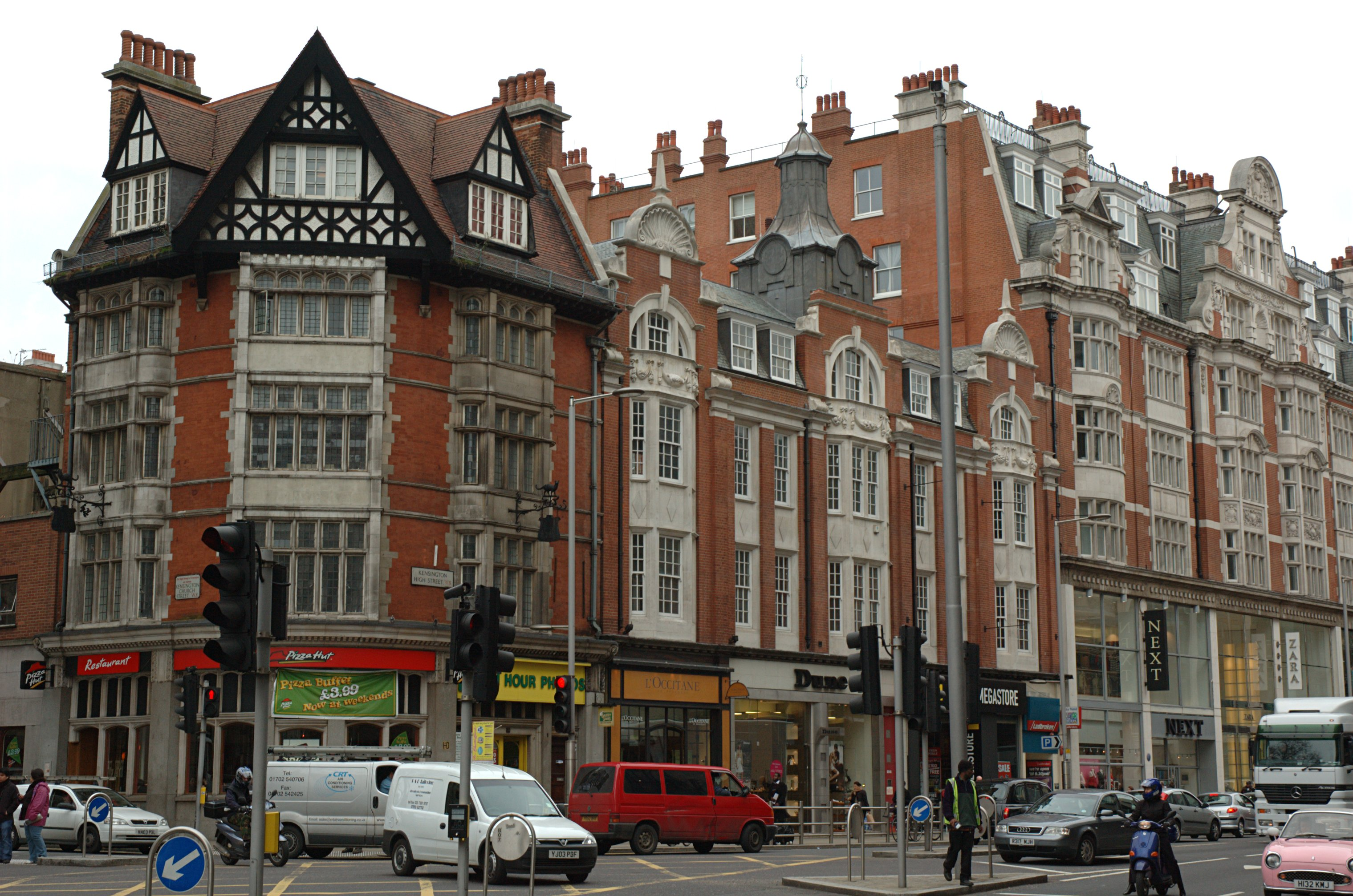 Kensington High Street at the intersection with Kensington Church Street. Kensington, London, England, UK.